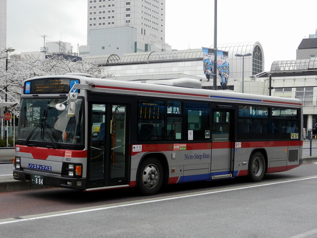 Tokyu bus (Ebara depot) Isuzu Erga Nonstep bus (KL-LV280L1)